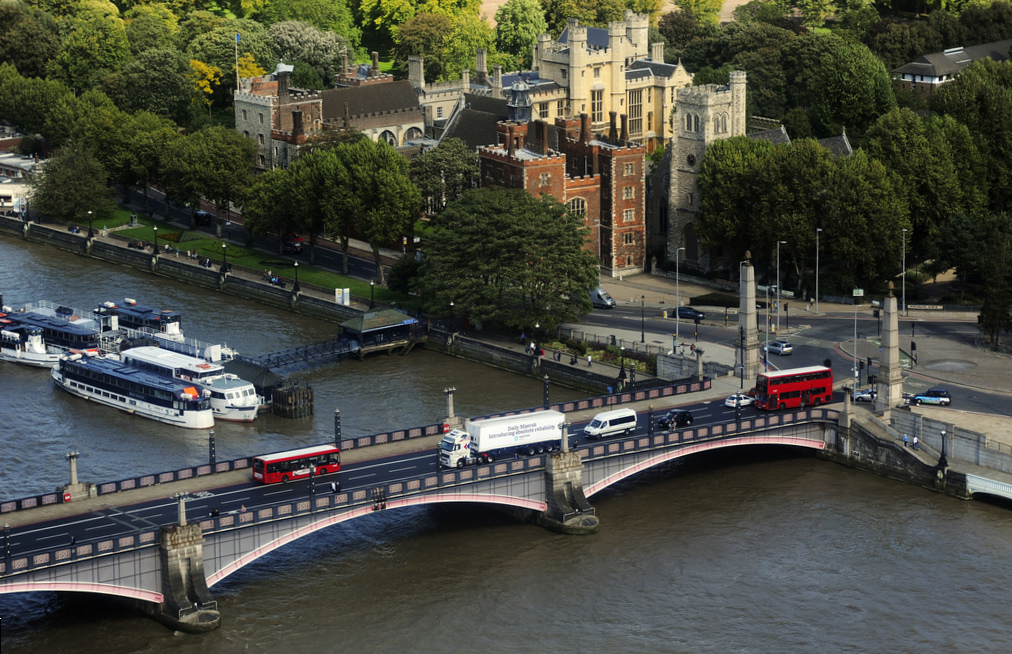 Daily Maersk container in London #2